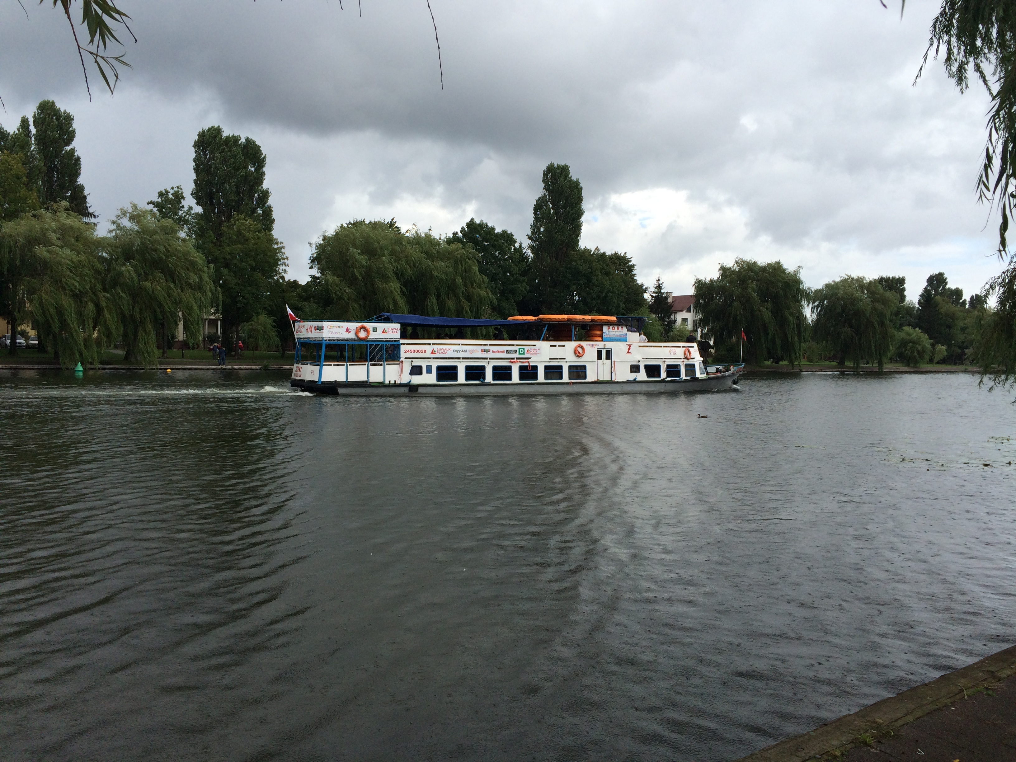 Tourist boat in Netta (Augustow, Poland)